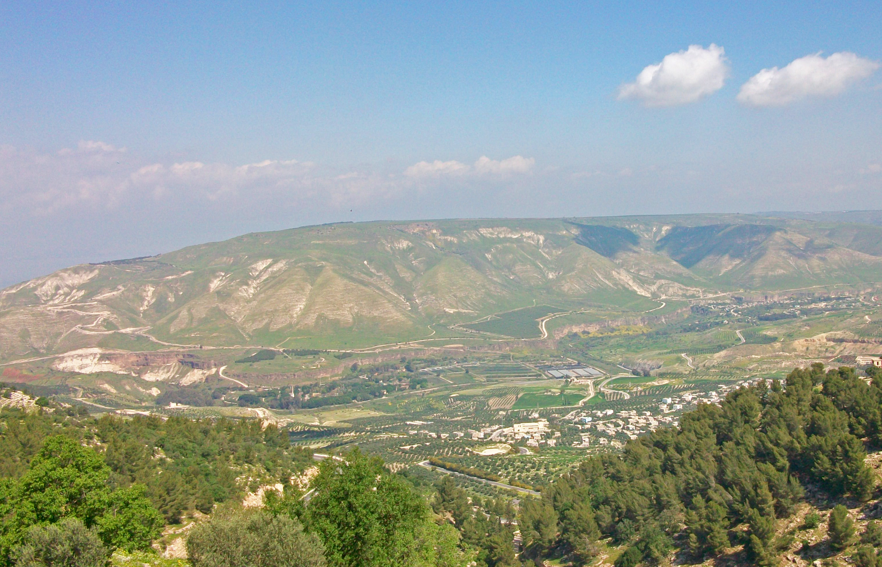 Al-Himma, Jordan, viewed from Umm Qais. Escarpment in background is southern end of Golan Heights.